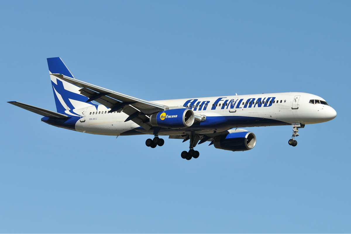 OH-AFJ, Air Finland Boeing 757-200, Malaga Airport